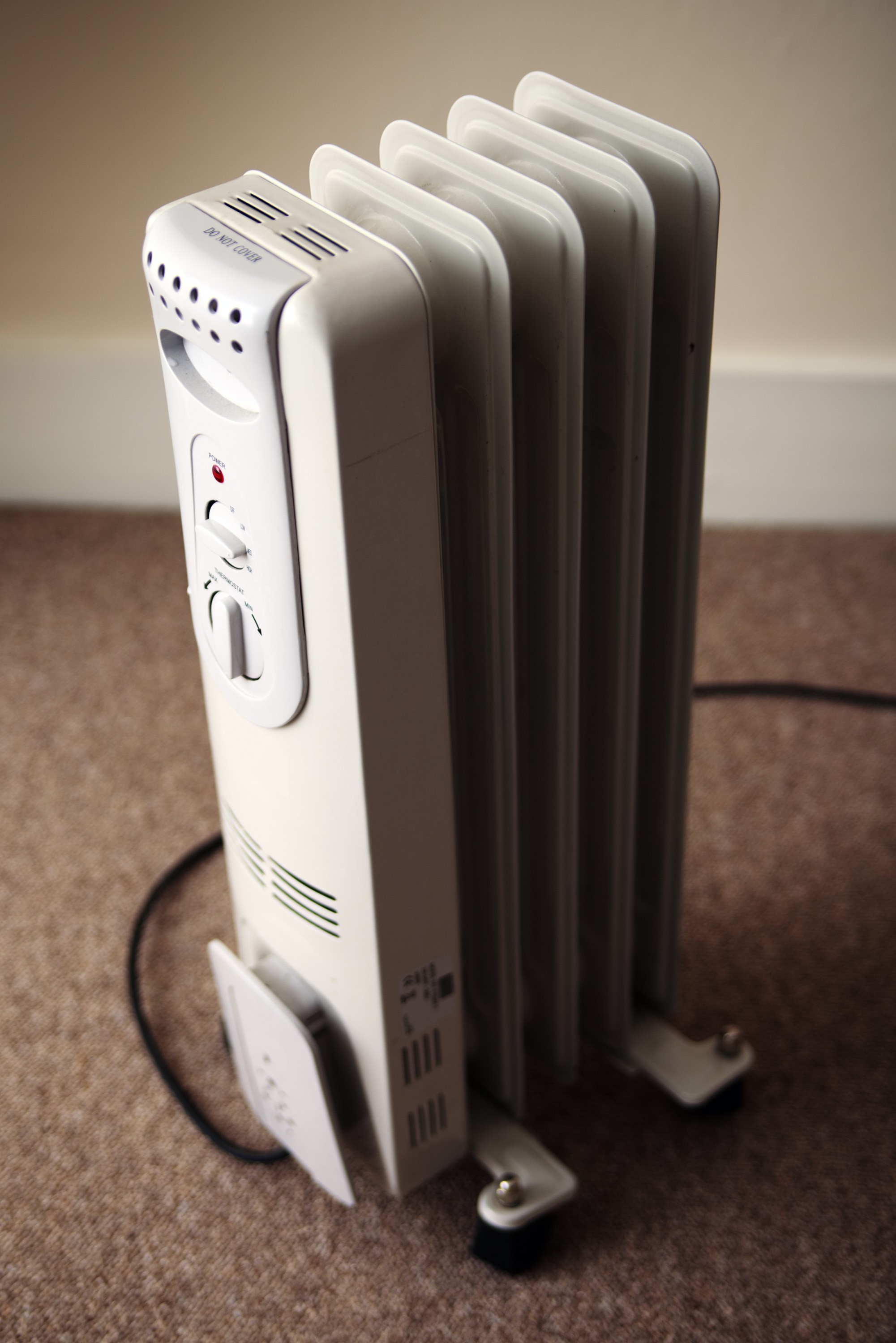 An oil heater.